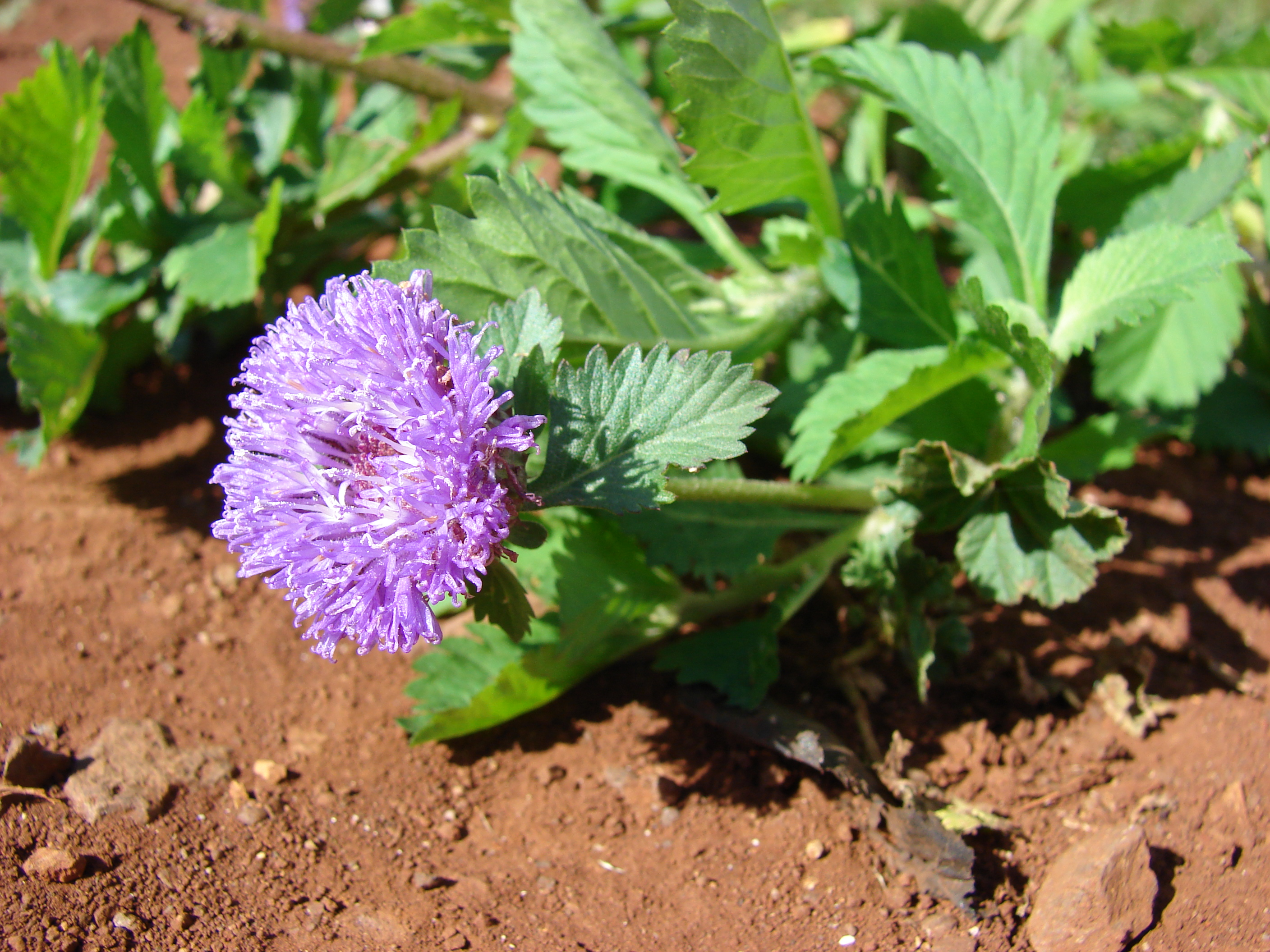 Centratherum punctatum subsp. punctatum (flowers and leaves). Location: Lanai, Kapano Gulch